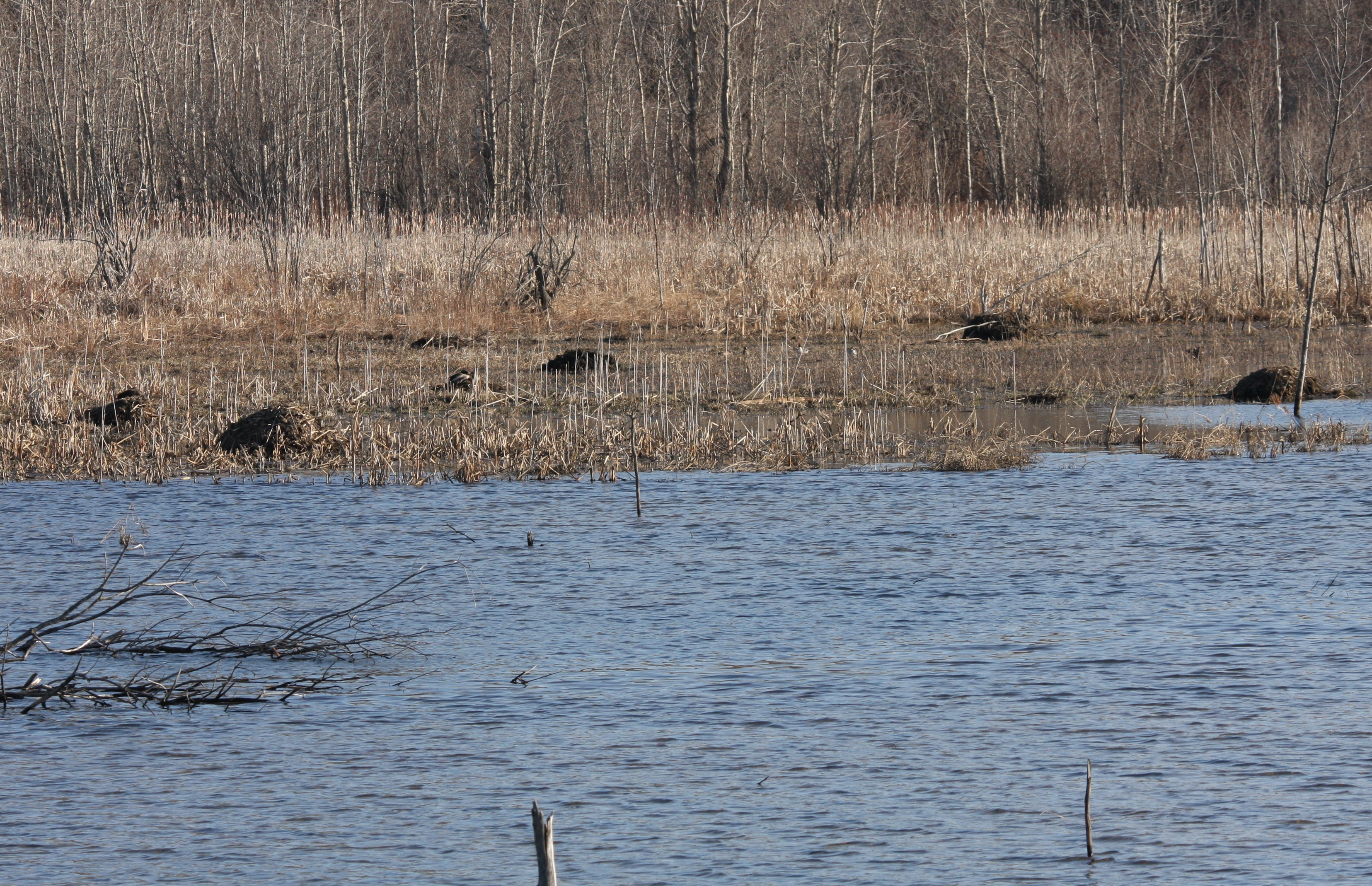 Muskrat (Ondatra zibethicus) lodges, Léon-Provancher marsh, Québec, Canada.